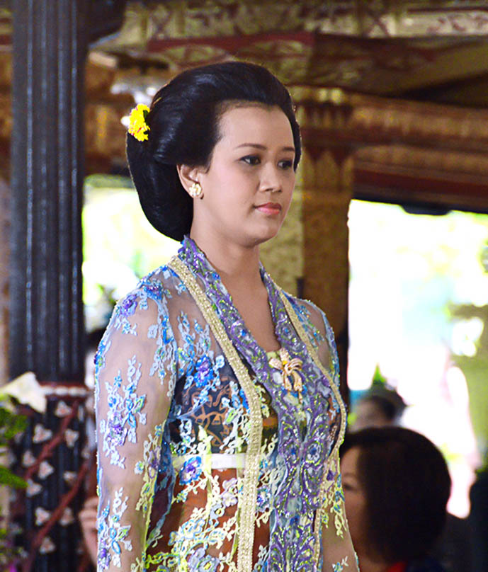 HRH Princess Mangkubumi of Yogyakarta